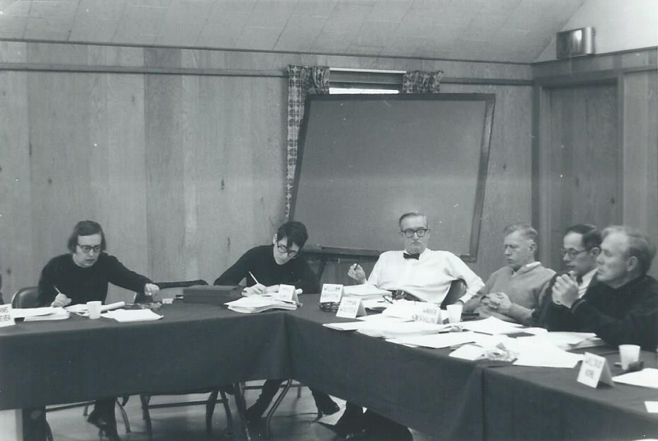 Participants in a conference for the United States Arms Control and Disarmament Agency to discuss a draft of a report concerning issues revolving around American defense posture and European security. The conference was held 30 October through 1 November 1969, at the Lake Mohonk facility in New Paltz, New York. Seen here are, left to right, are Jane P. M. Schilling, rapporteur; Myra B. Ramos, rapporteur; William E. Griffith of MIT; unidentified male; Warner R. Schilling of Columbia University; and William T. R. Fox of Columbia University. The namecards can be seen for Hans Speier (far left) and Wilfrid L. Kohl (far right) but they themselves are not seen.